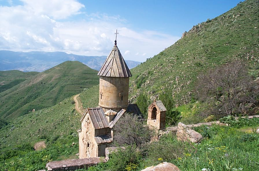 Spitakavor Monastery in Southern Armenia, near Yeghegnadzor.